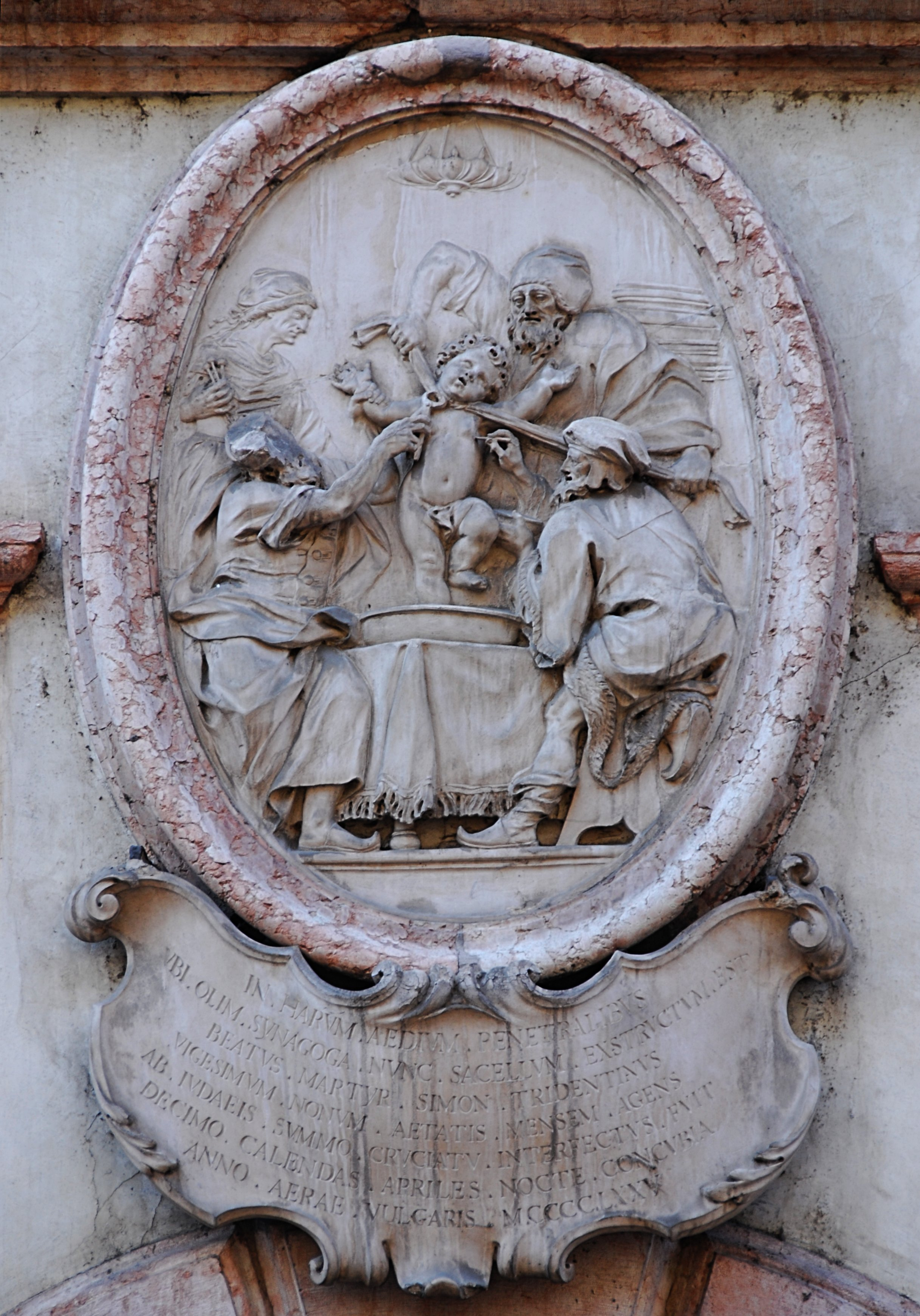 Bas-relief representing the (not happened) ritual murder Simon of Trent